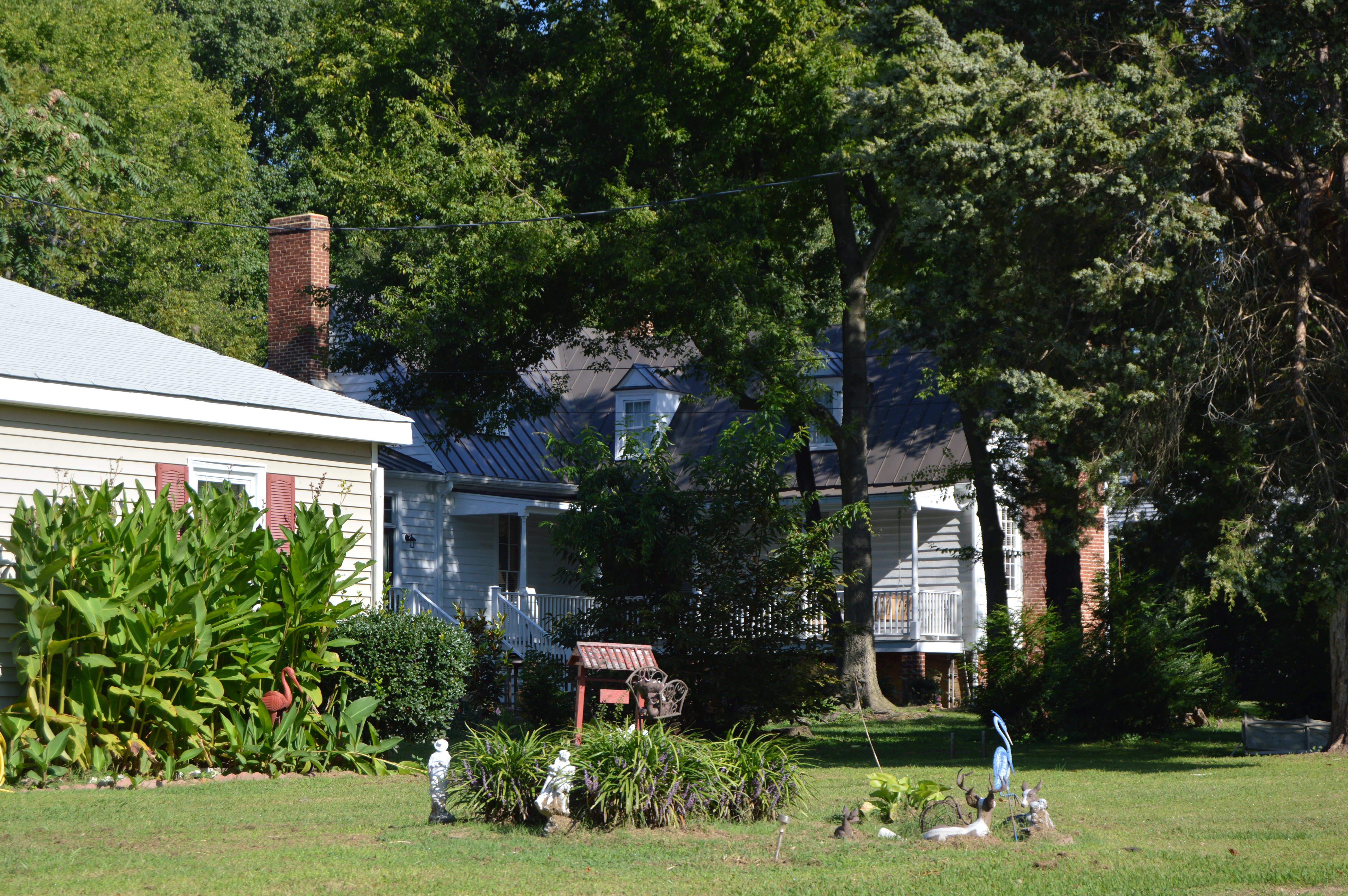 Front and eastern side of Laurel Meadow, located at 1640 Bramwell Road in Richmond, Virginia, United States. Built in 1776, it is listed on the National Register of Historic Places.